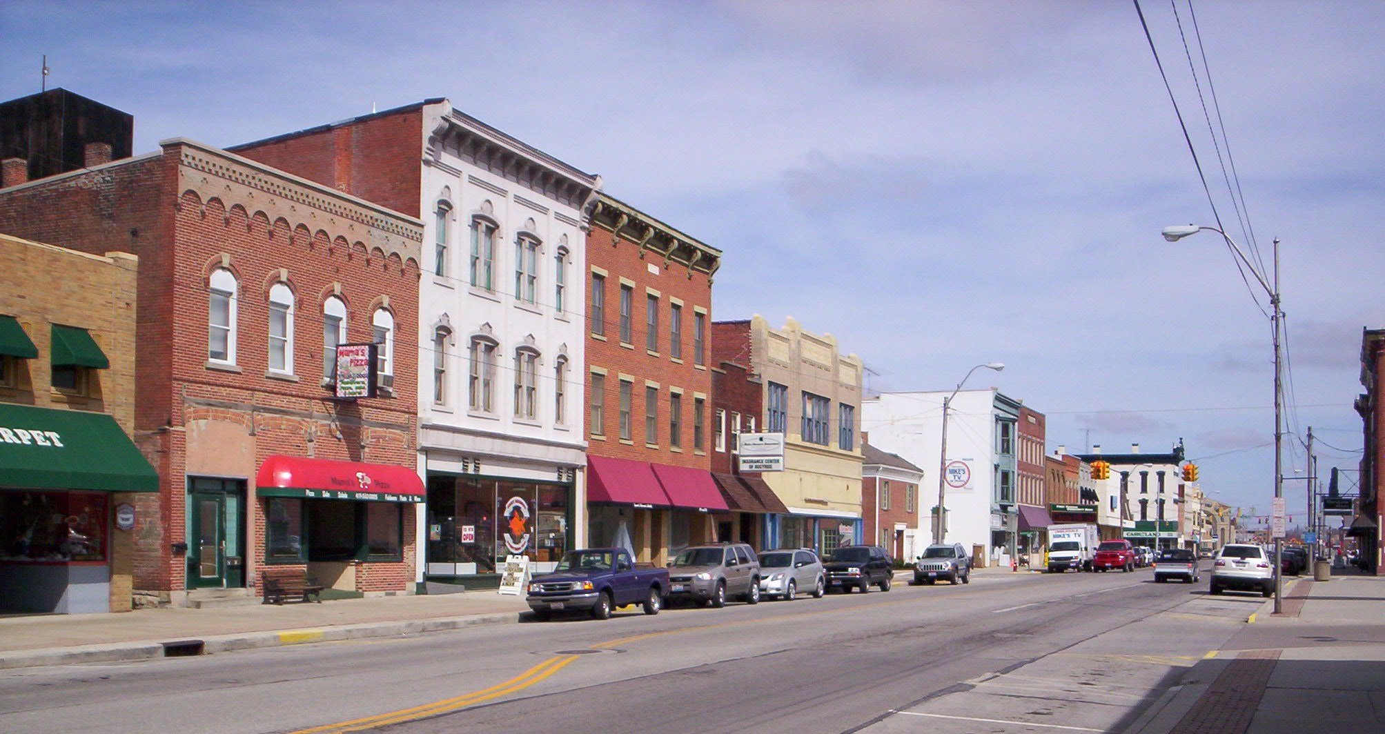 A view of downtown Bucyrus, Ohio on South Sandusky Avenue.